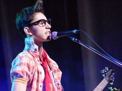 Обладателями Гран-при фестиваля «Рок-февраль» стала ивановская группа «Медиатр Судьбы».